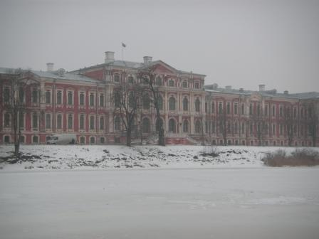 Photo by C.B.Doak